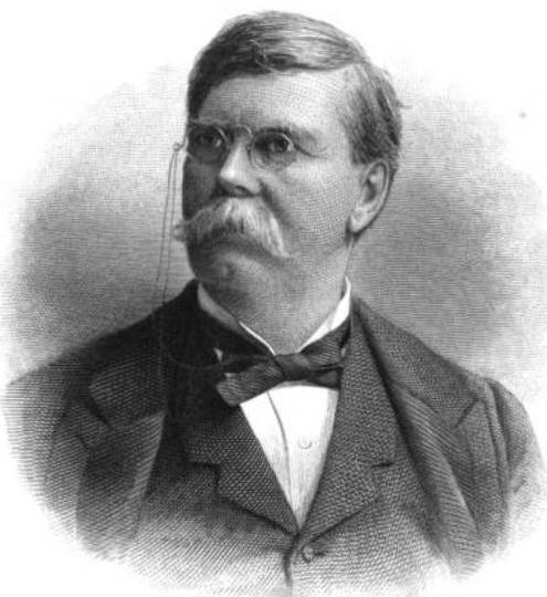 William Davis Daly, US Representative from New Jersey